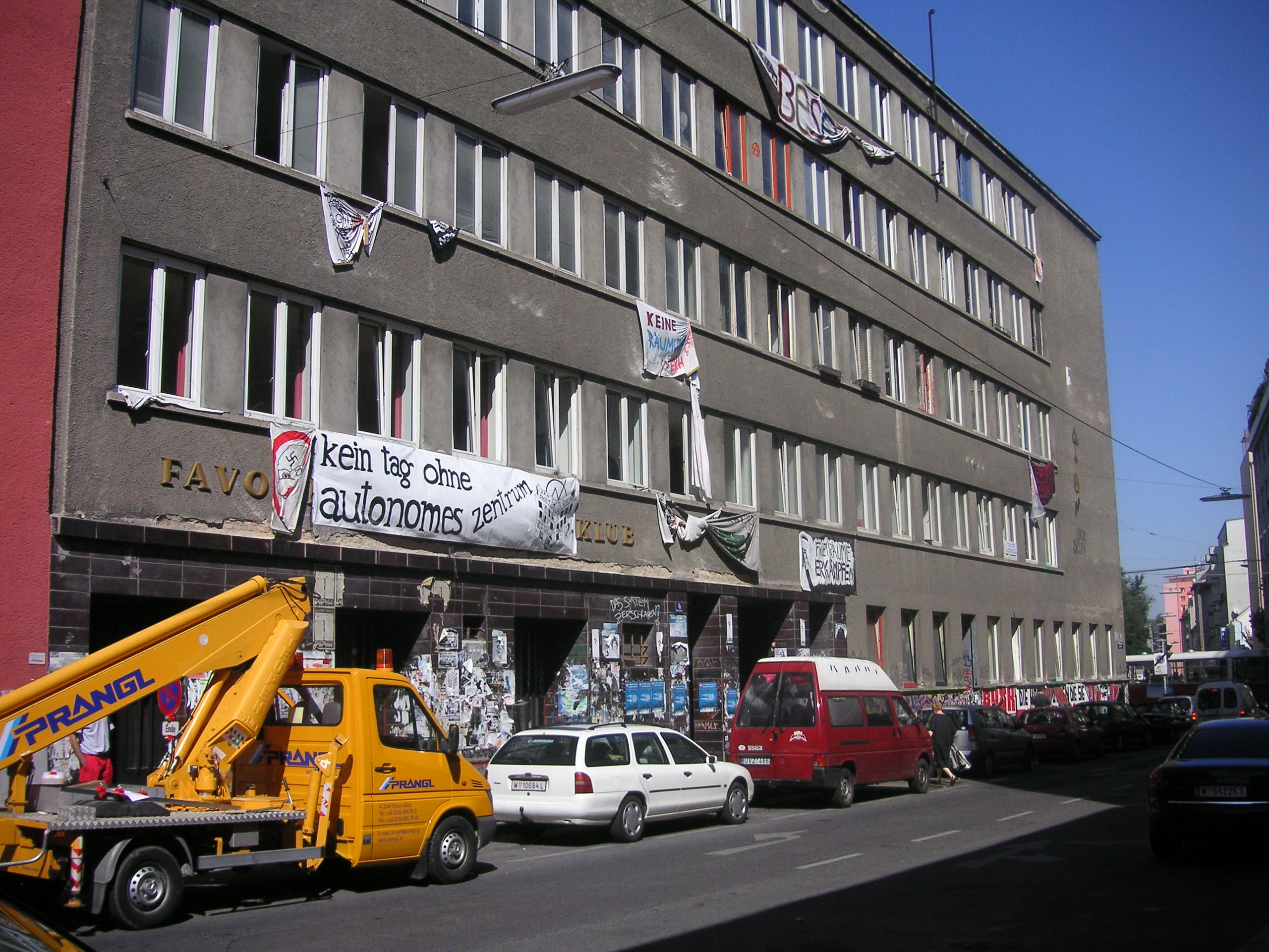 The Ernst-Kirchweger-Haus, Vienna, photographed by KF on September 5, en:2005.